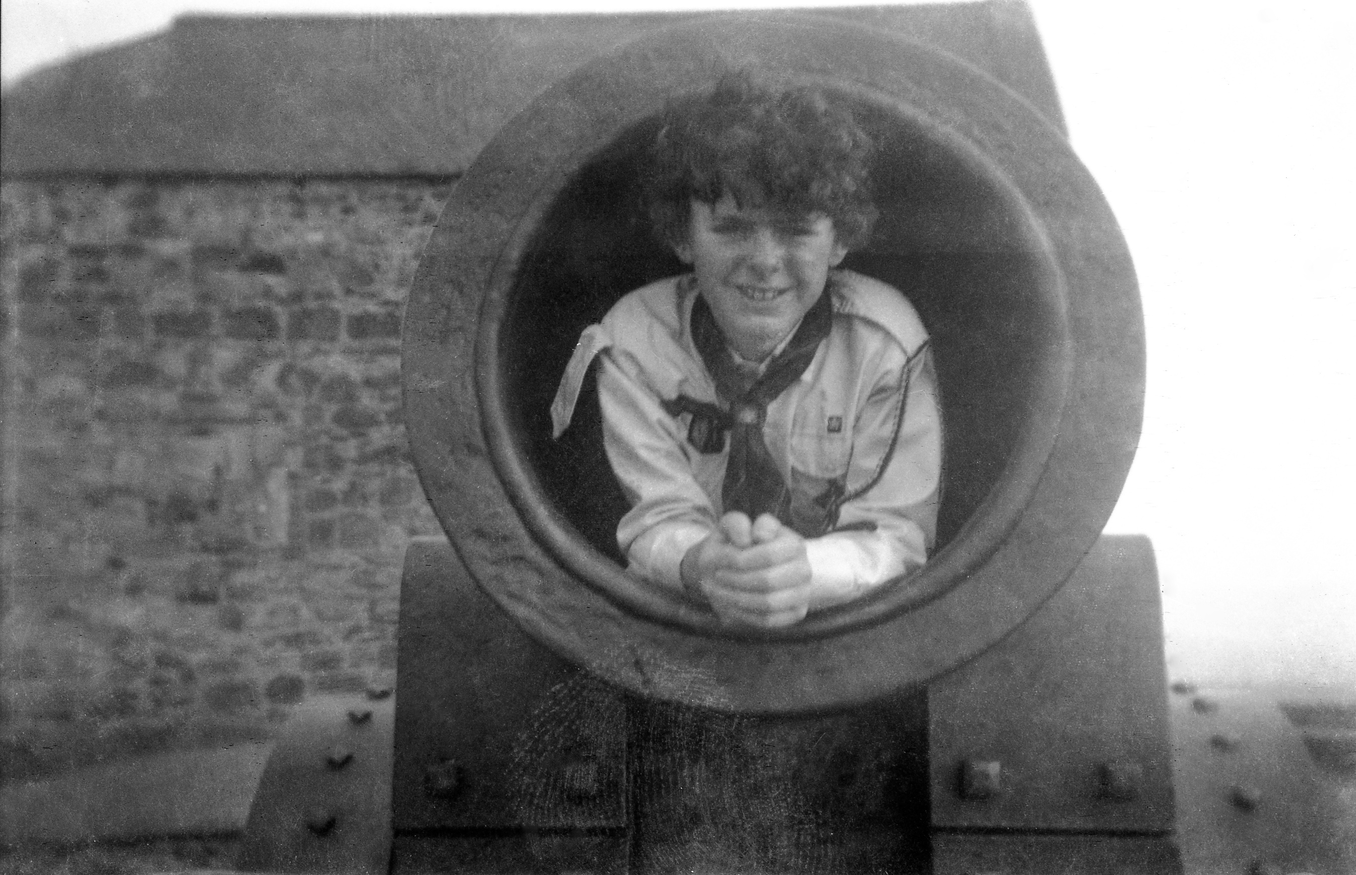 A boy inside the barrel of the Mons Meg cannon at Edinburgh Castle, Scotland. Picture taken with a Zeiss Ikon Box Tengor 54/2 camera. Digitized from 120 film negative.